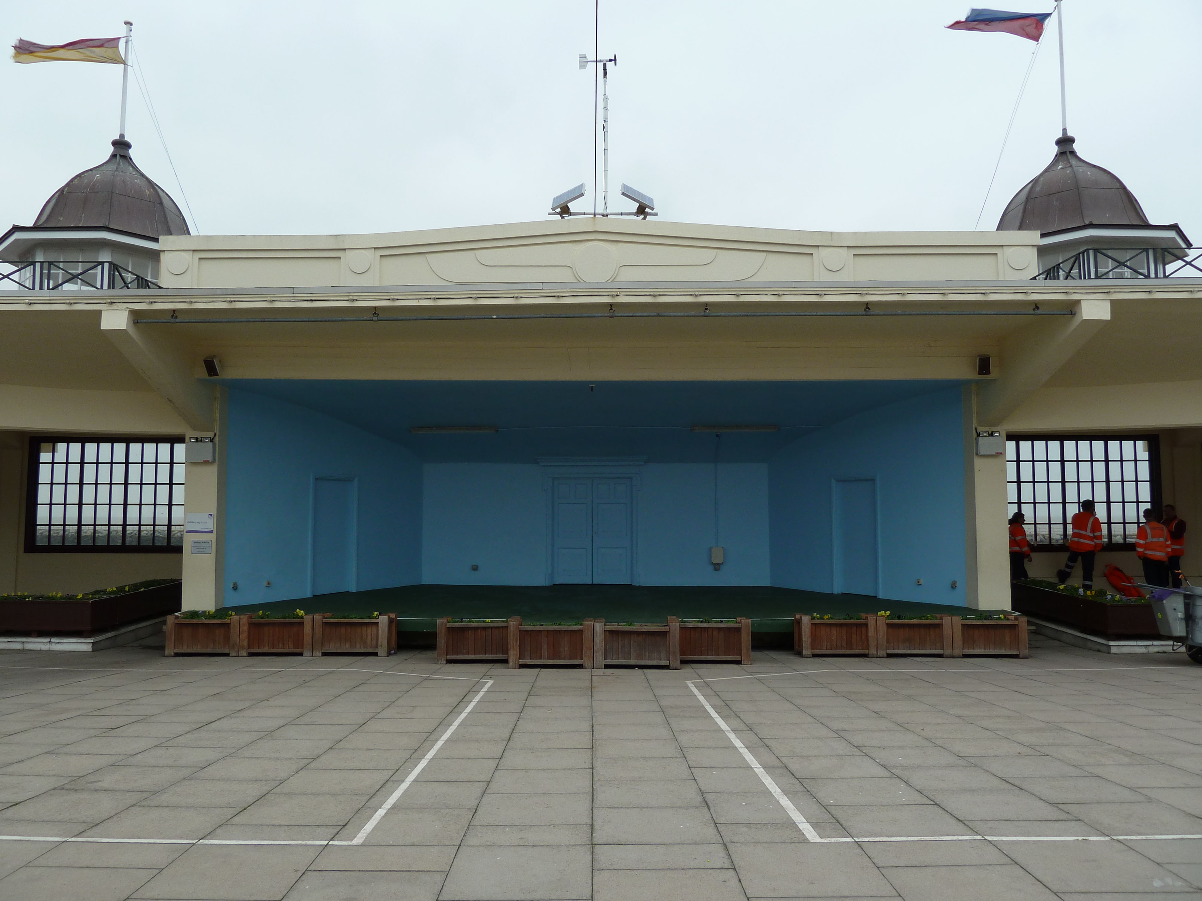 The Central Bandstand, Herne Bay, Kent, England. Built 1924. View inside band stand looking north to very small stage from cafe seating area, or tea dance area.